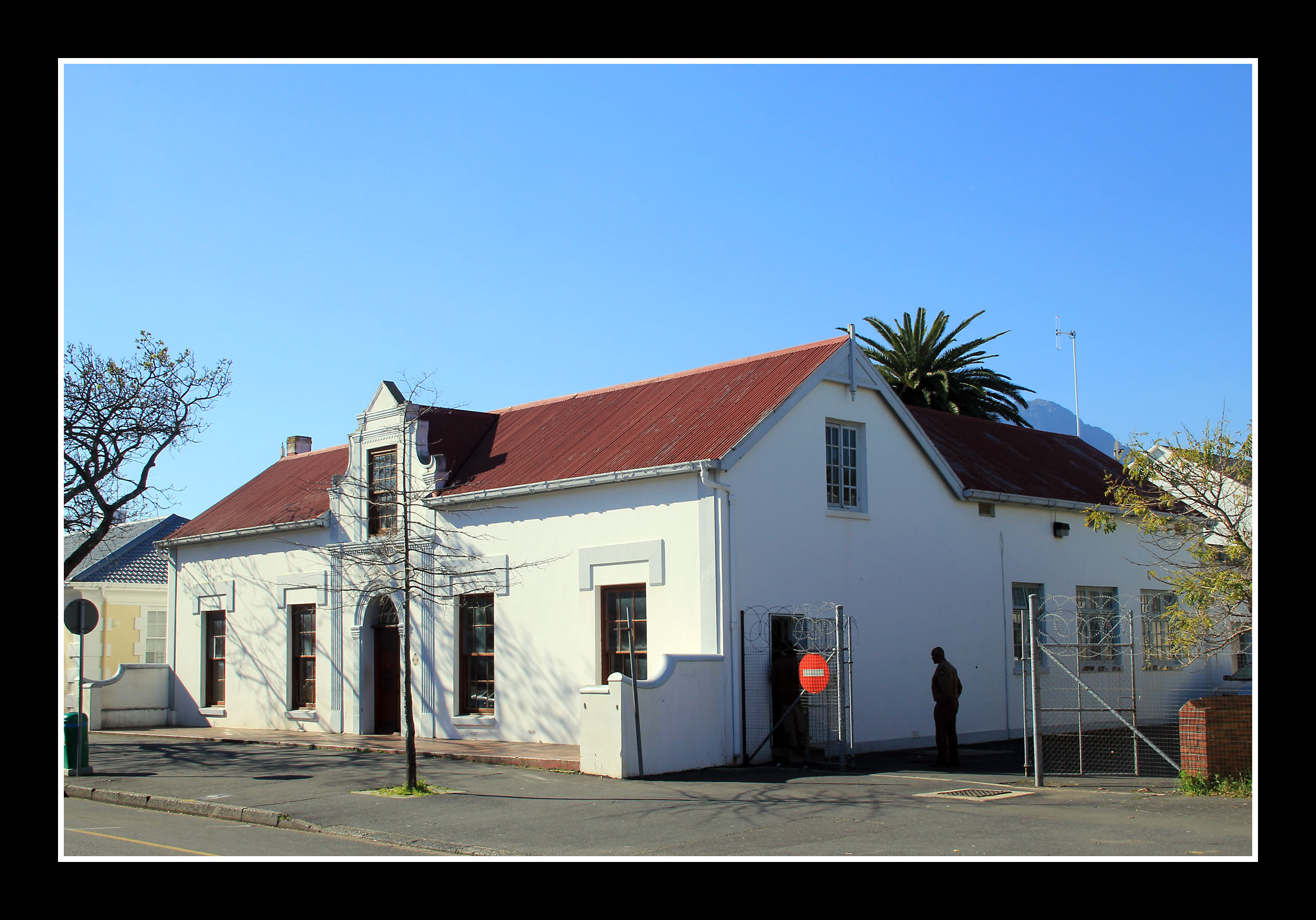 Police Station, 124 Main Street, Somerset West This media shows a South African Protected Site with SAHRA file reference 9/2/083/0023.